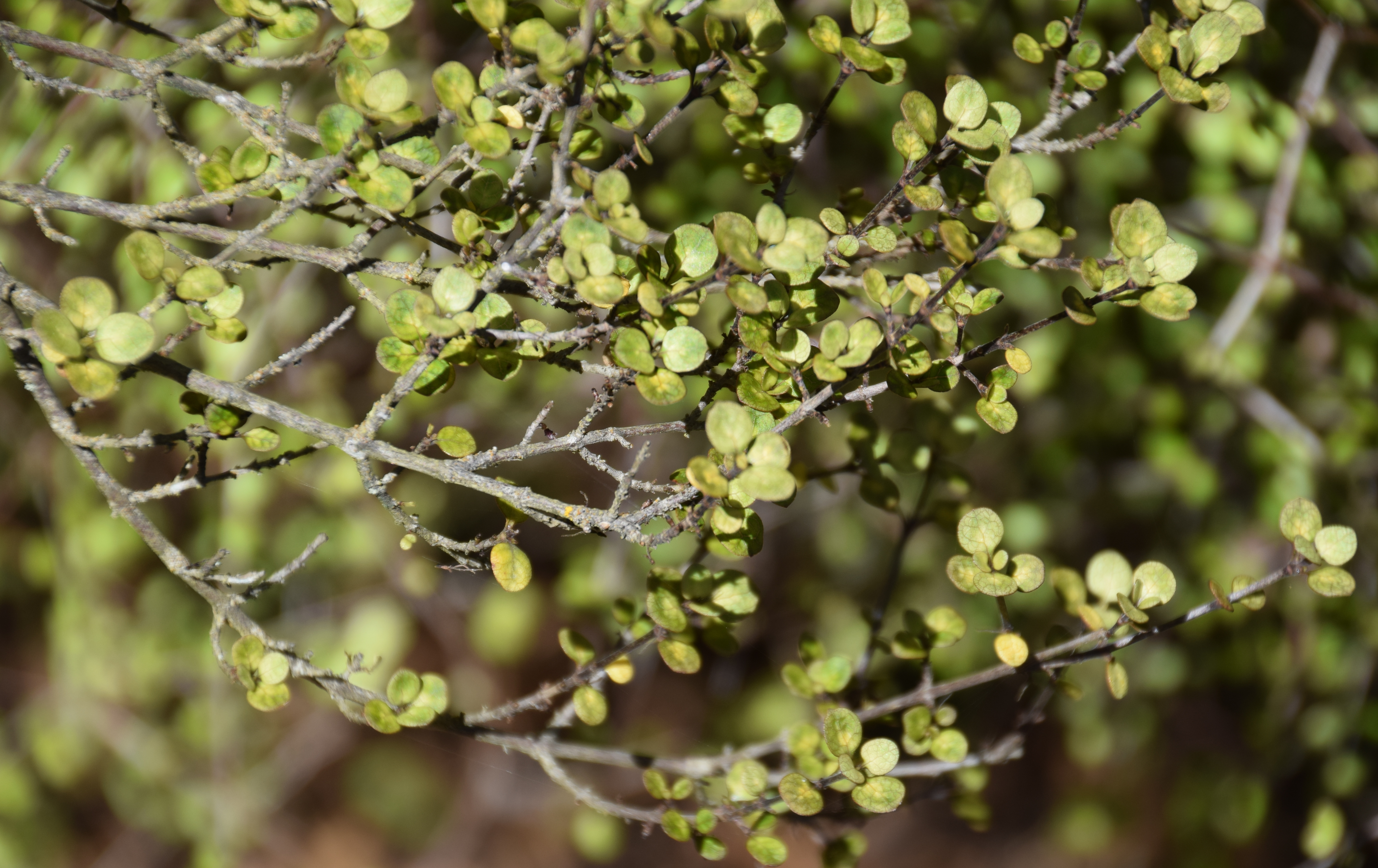 Coprosma tenuicaulis in Dunedin Botanic Garden, Dunedin, New Zealand